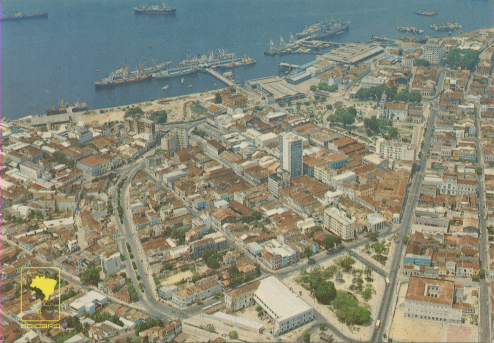 Manaus, 1972